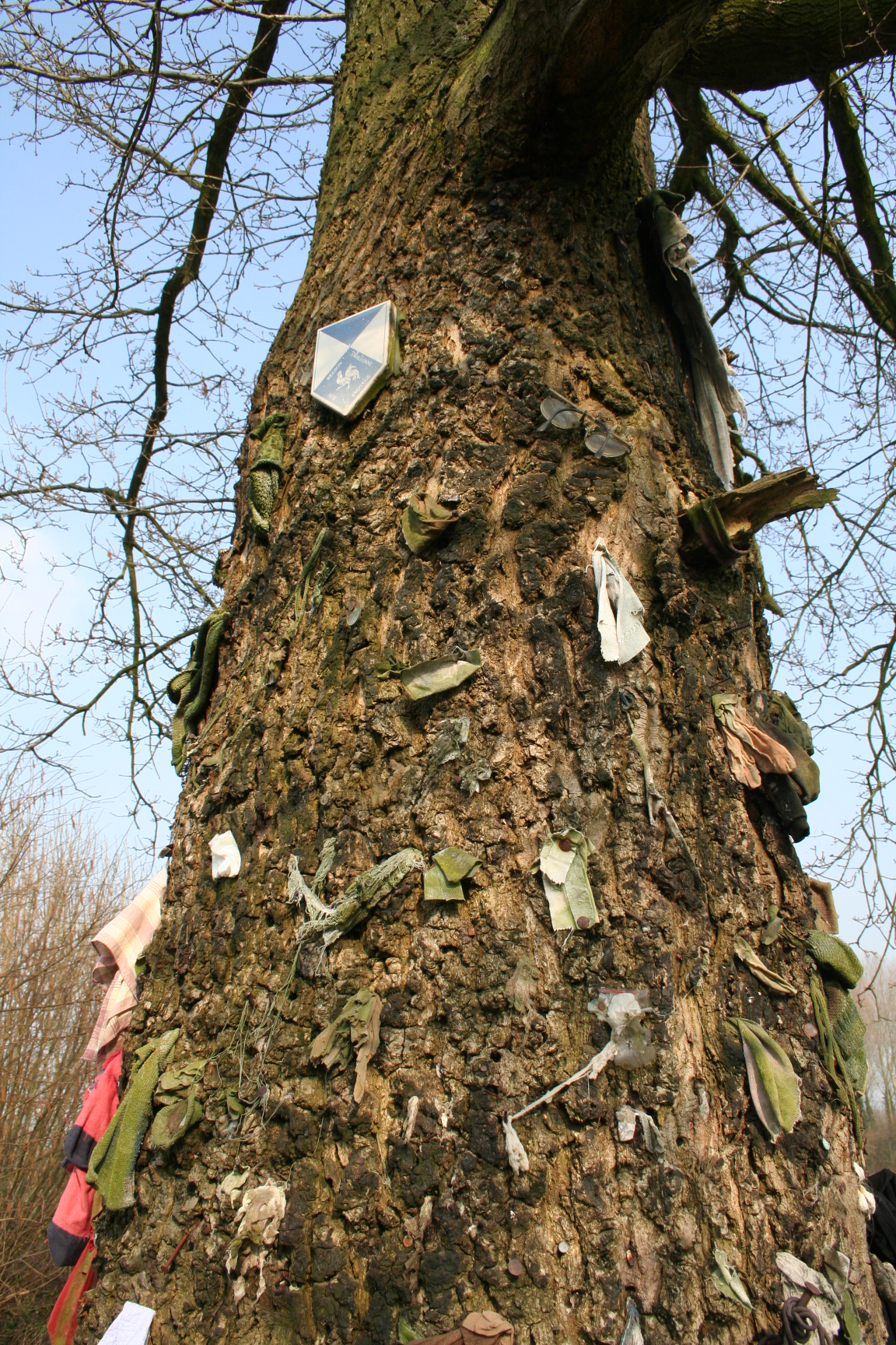 Herchies (Belgium), sentier des Chats – The Saint Anthony of Padua oak tree with her ex-voto.